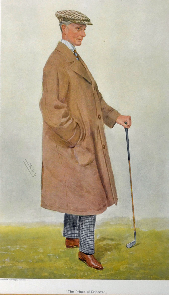 Men of the Day No.1166: Caricature of Mr Harry Deeley Mallaby-Deeley. Caption reads: "The Prince of Prince's"